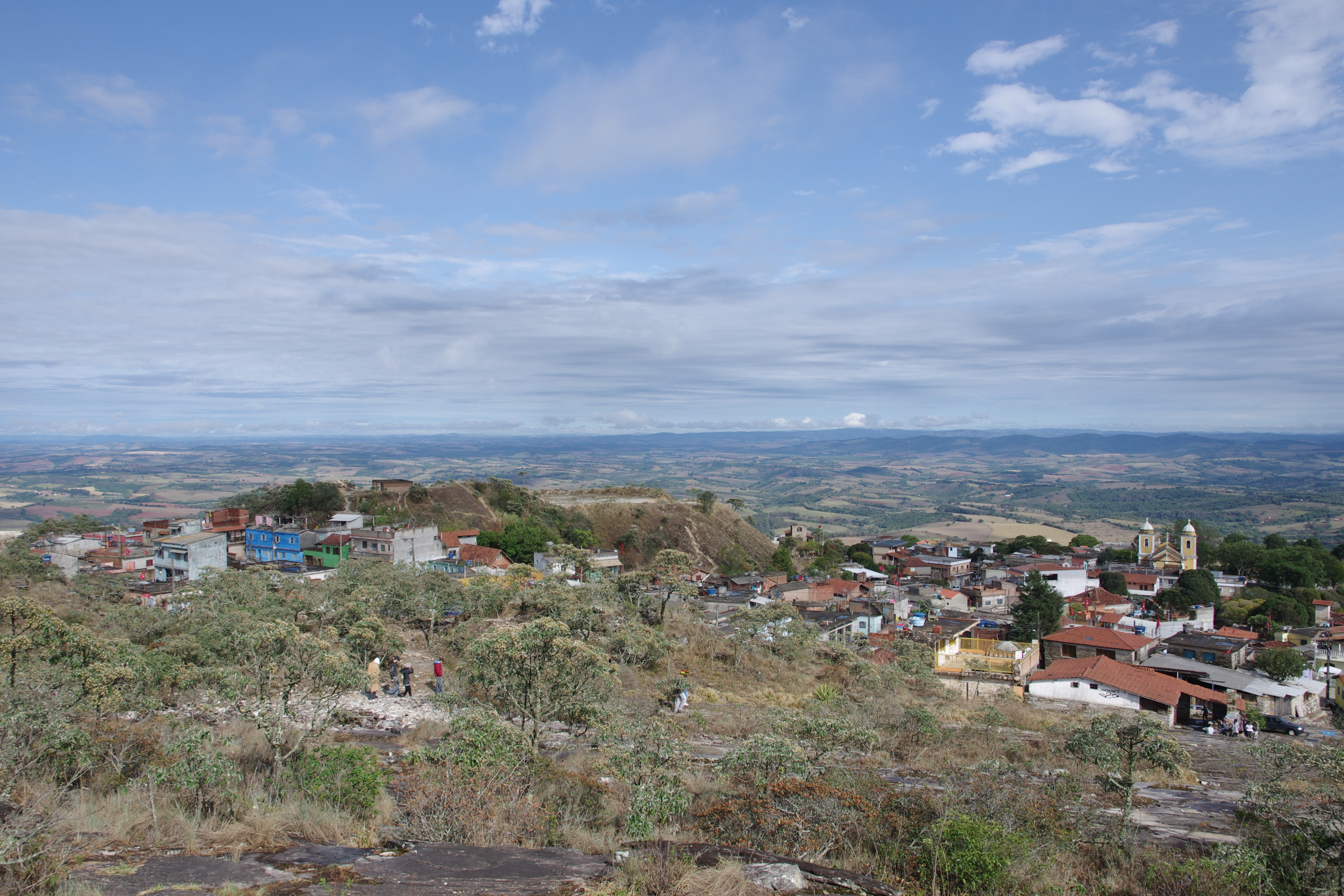 Sao Thome das Letras - Brazil